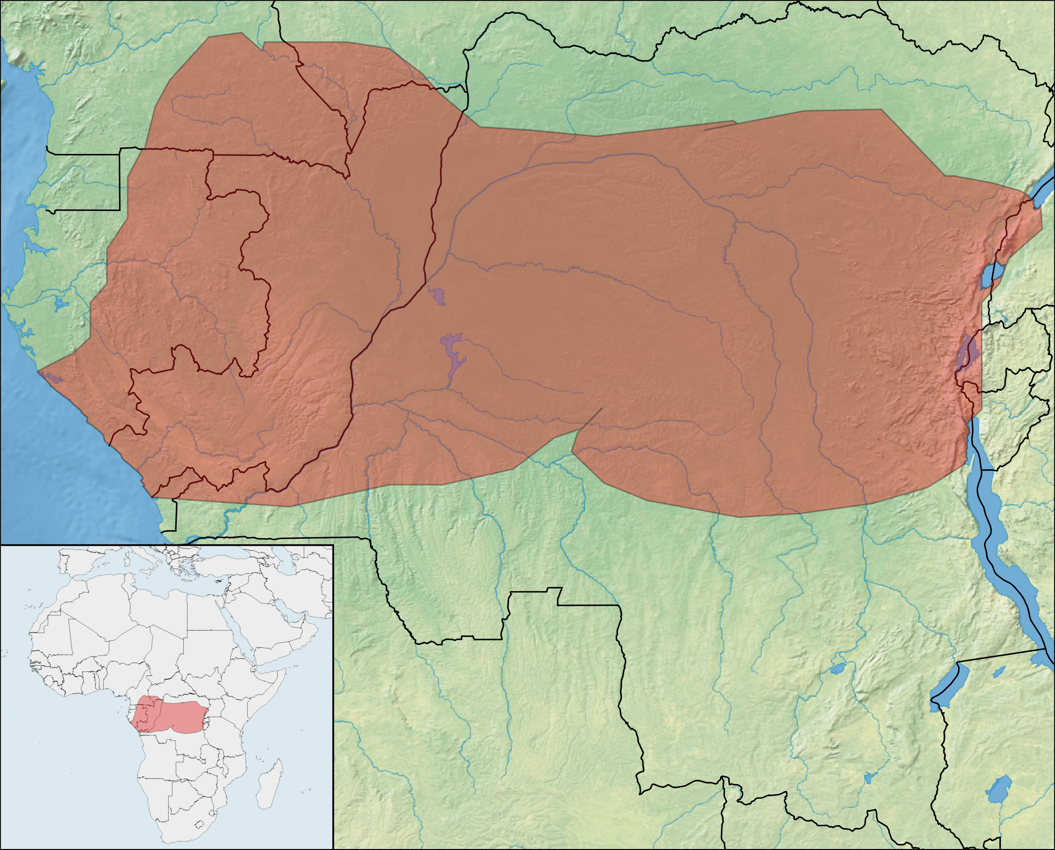 Geographic range of Caprimulgus batesi